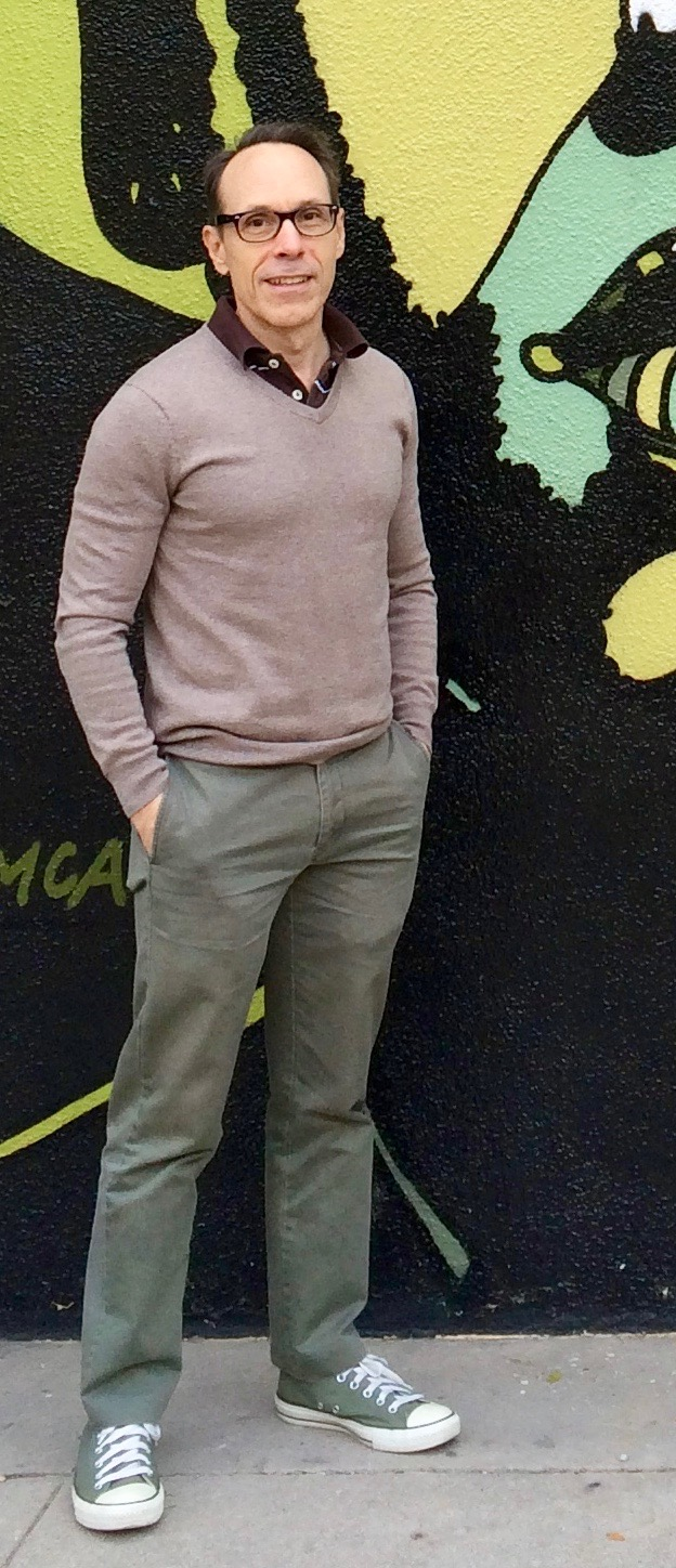 Photo of William Haefeli, November 2015. in Los Angeles